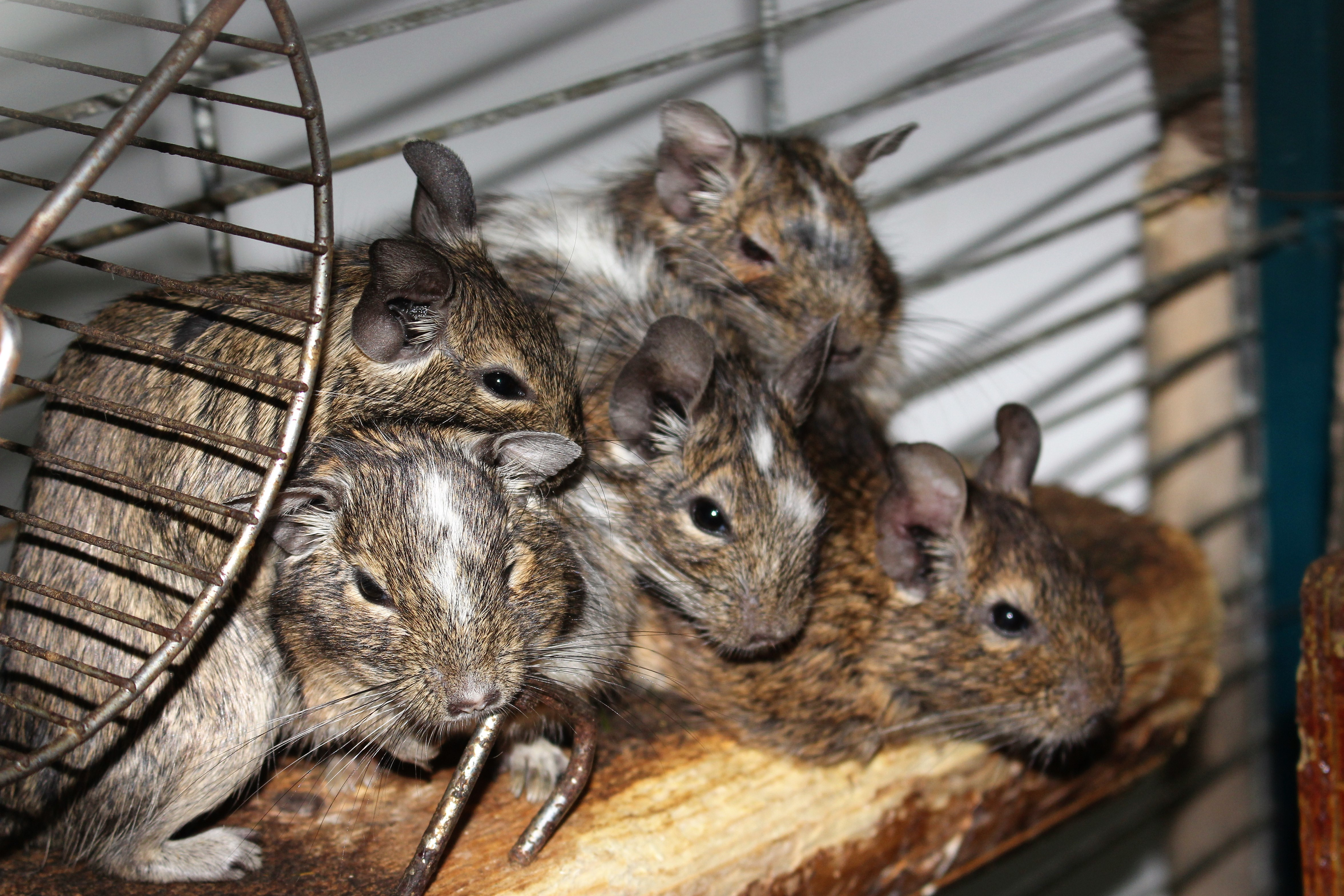 Common degus (Octodon degus) in Nagyvárad Zoo, Transylvania.